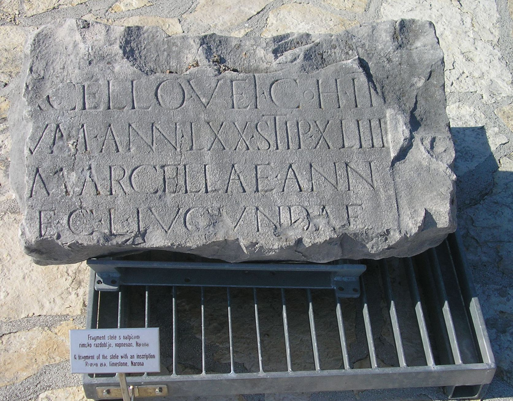 Museum exponat, archeological museum Narona, Vid, Croatia